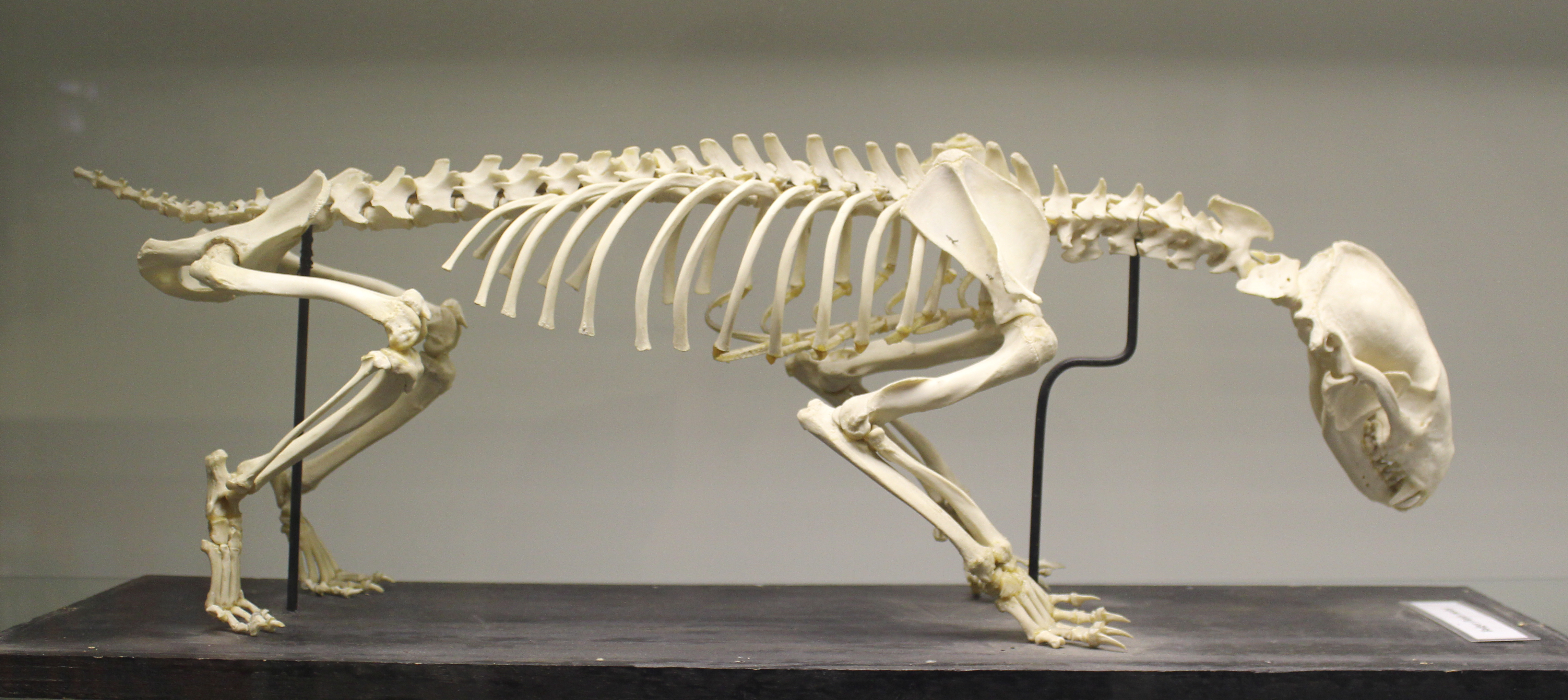 European badger (Meles meles) skeleton at the Royal Veterinary College anatomy museum